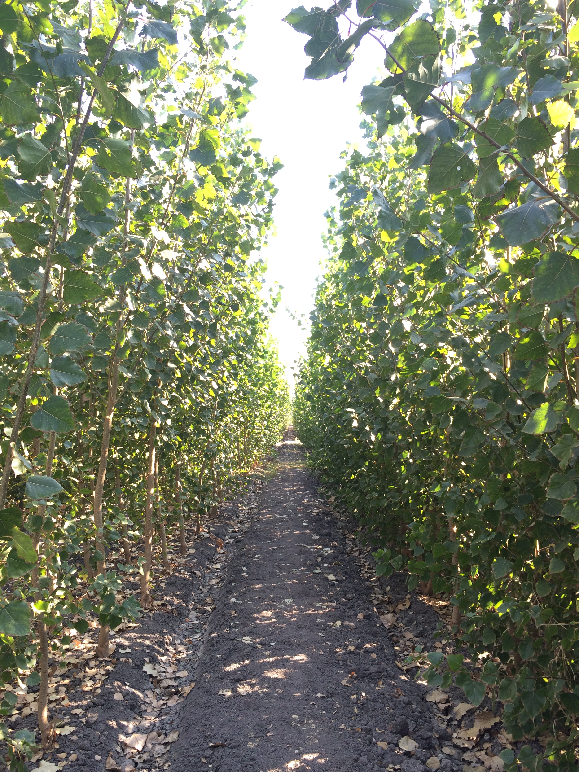 SRC poplar plantation for biofuel in California